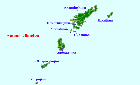 Map of the Amami Islands, Kagoshima Prefecture, Japan